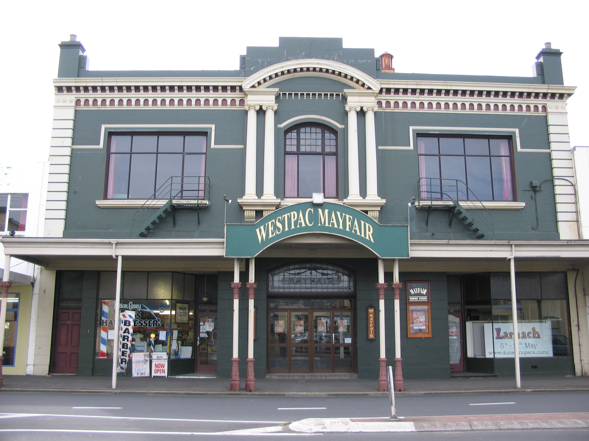 Mayfair Theatre in Dunedin, New Zealand. Photograph by myself, JB Collier. New Zealand Historic Places Trust Register number: 7786.